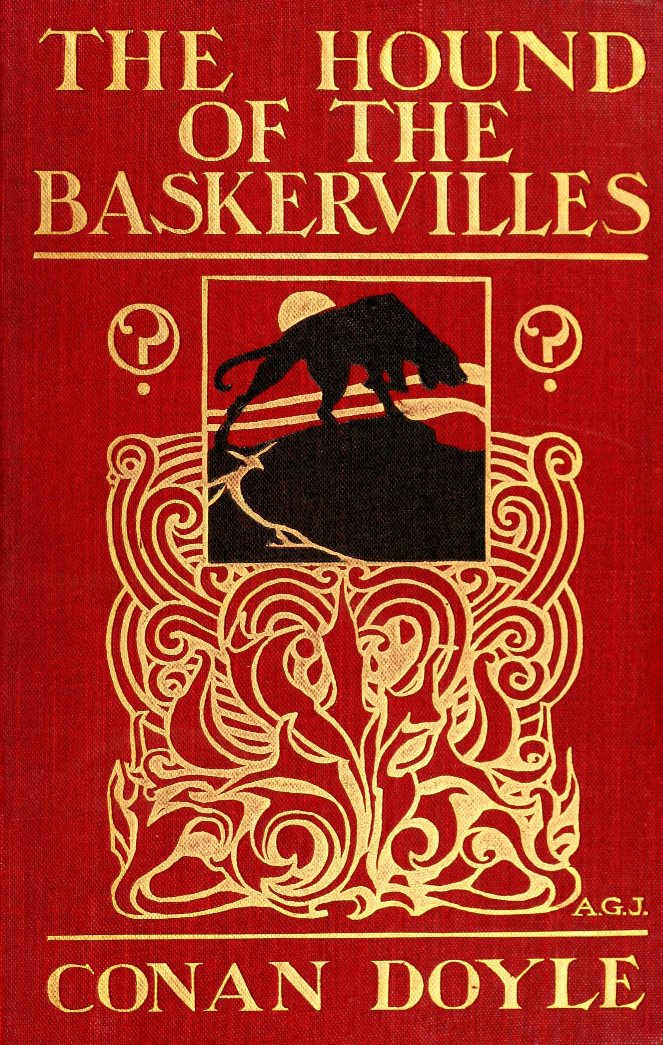 An page scan of cover of The Hound of the Baskervilles by Arthur Conan Doyle